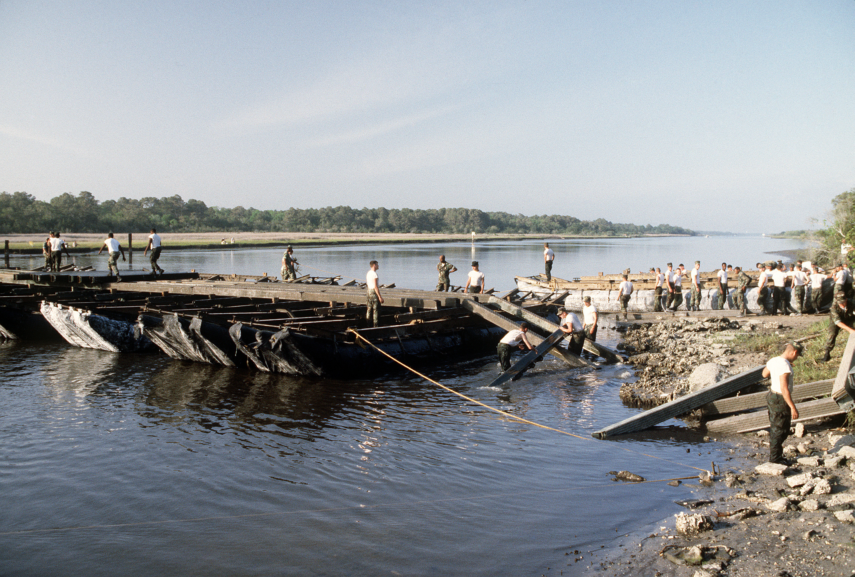 Marine Corps 8th Engineers Bridge Company construct an M4T6 floating bridge during Exercise Solid Shield '83